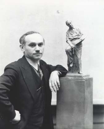 Max Kalish (1891-1945), Peter A. Juley & Son Collection, Smithsonian American Art Museum J0020817